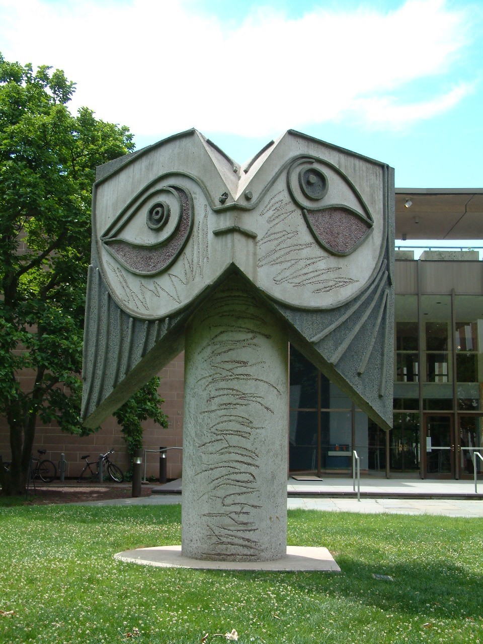 Princeton_University_Museum. Sculpture designed by Picasso in 1962, assembled by Norwegian artist Carl Nesjar [1] in 1971